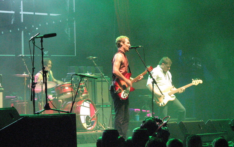 Silverchair performs at the Across the Great Divide Tour in 2007.